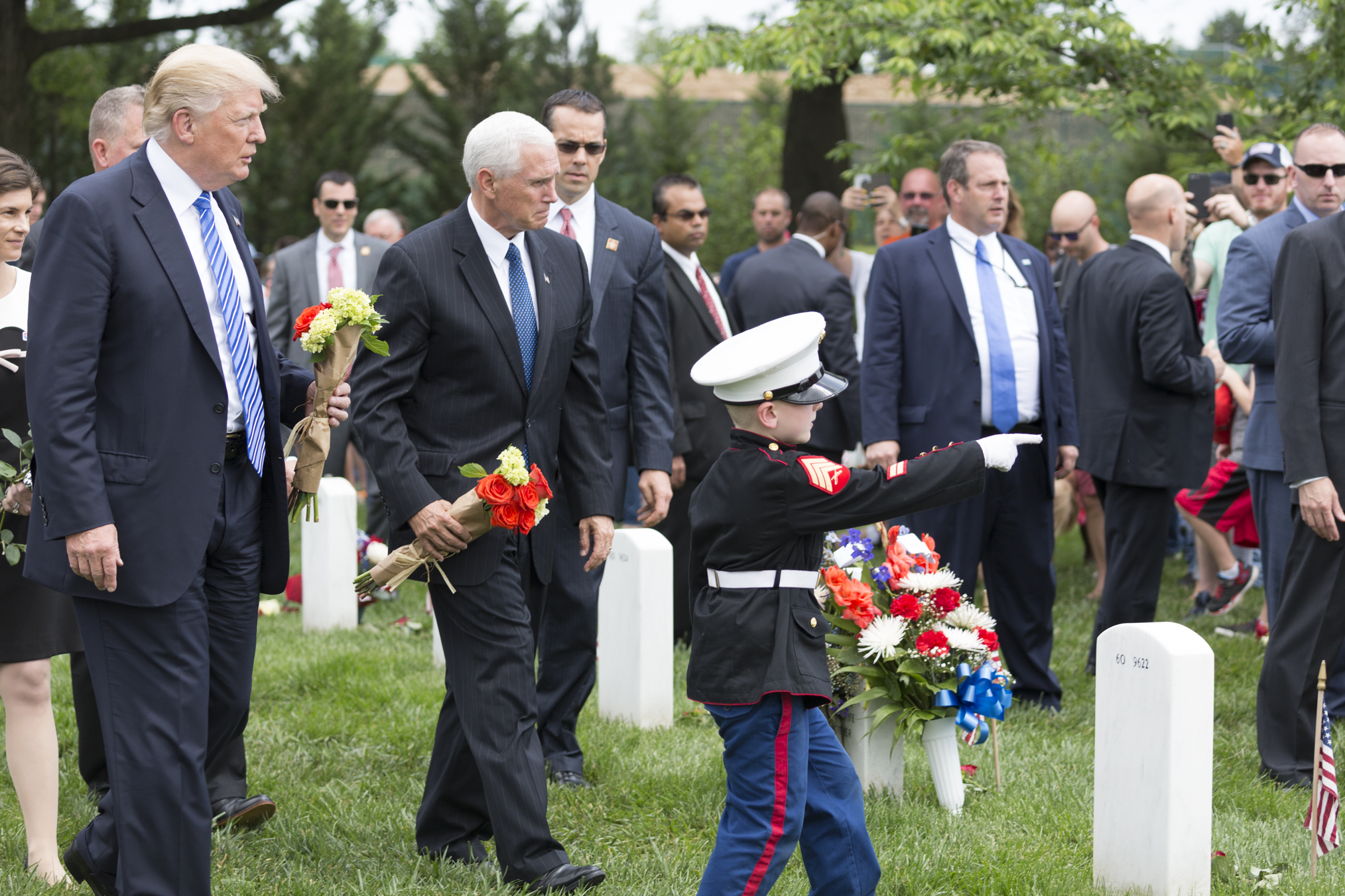 President Donald Trump participates in the Memorial Day Ceremony at Arlington National Cemetery Monday, May 29, 2017, in Arlington, Virginia. (Official White House Photo by Shealah Craighead)